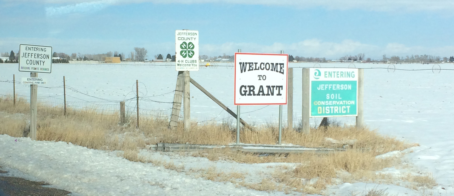 Entering the community of Grant, Idaho, in Jefferson County, traveling north on Lewisville Highway (business 20, N 5th E)